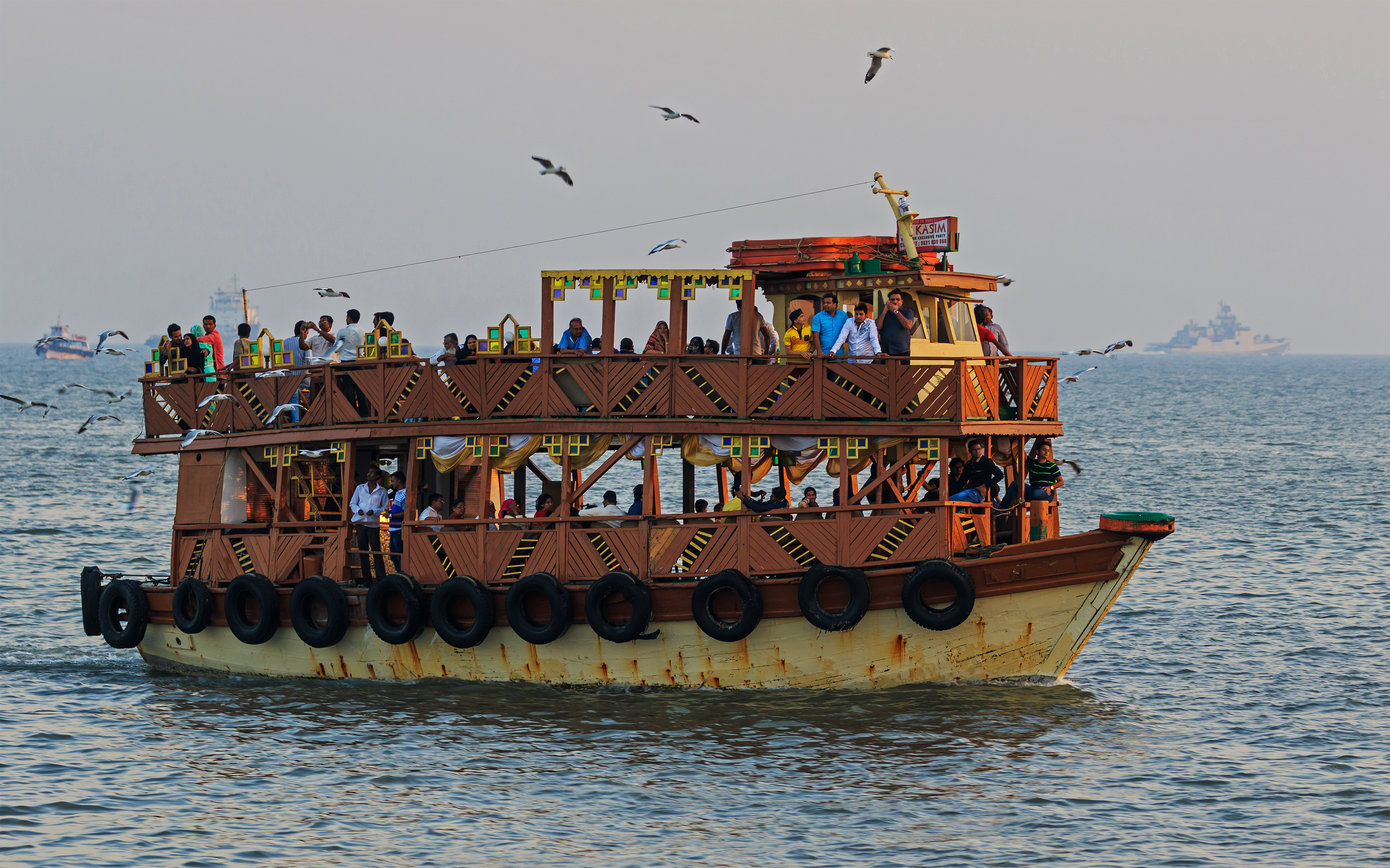 Ferry ship near the Gateway of India in Mumbai. Taken from Elephanta-Mumbai ferry. Maharashtra, India.